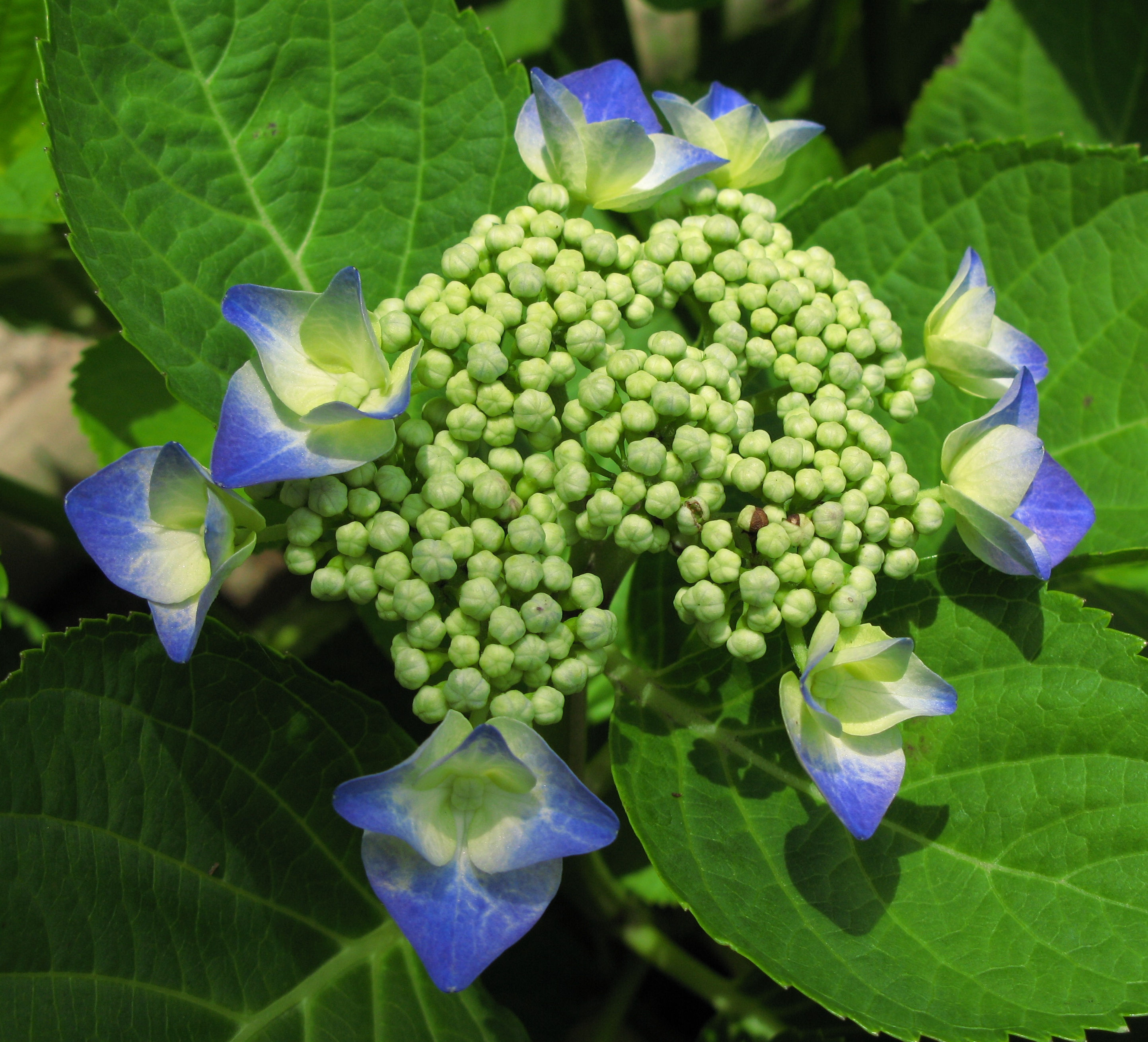 Hydrangea macrophylla, Ashikaga Flower Park, Ashikaga city Tochigi-ken(Prefecture), Japan